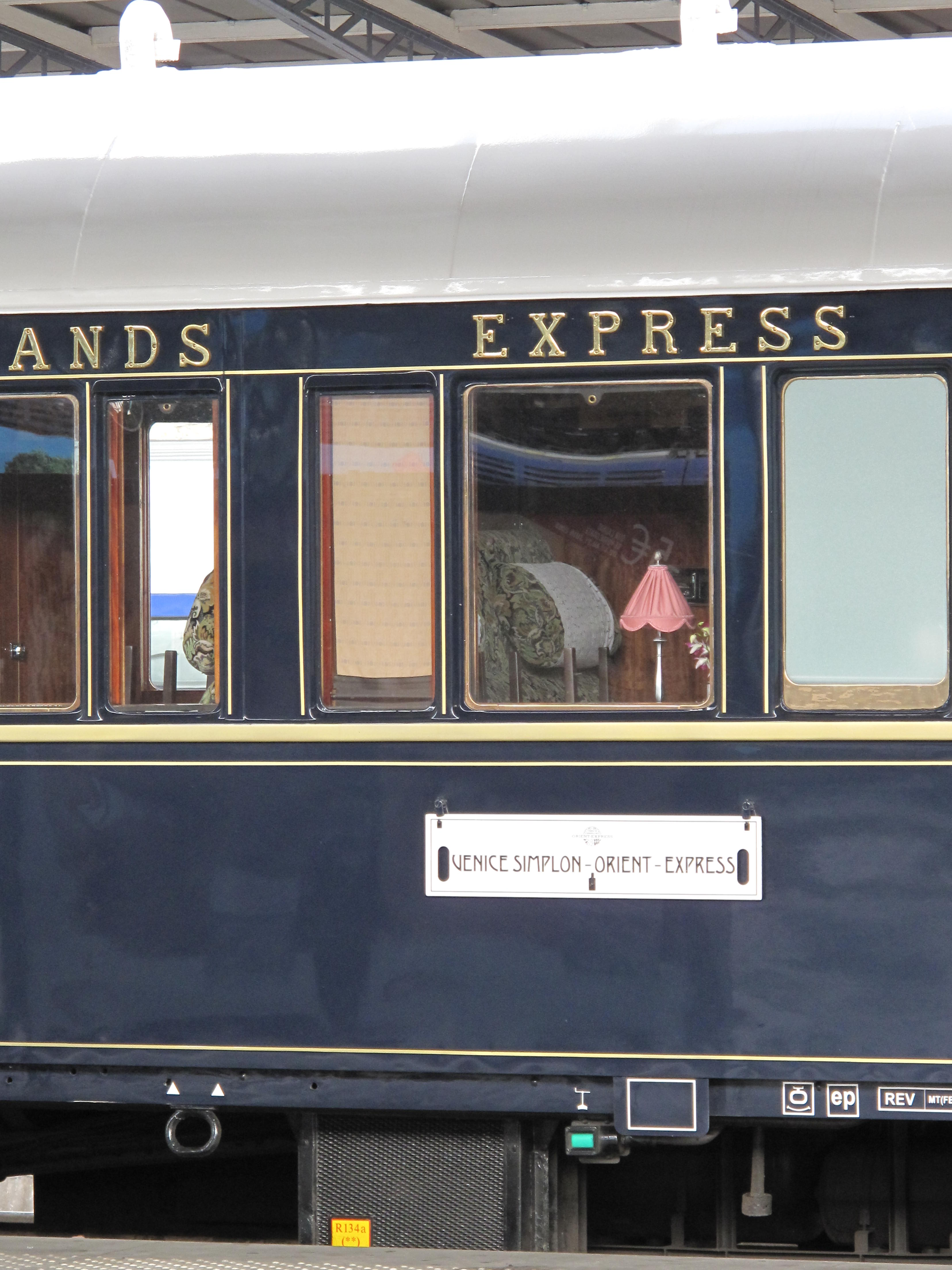 Detail of a car of the Orient-Express